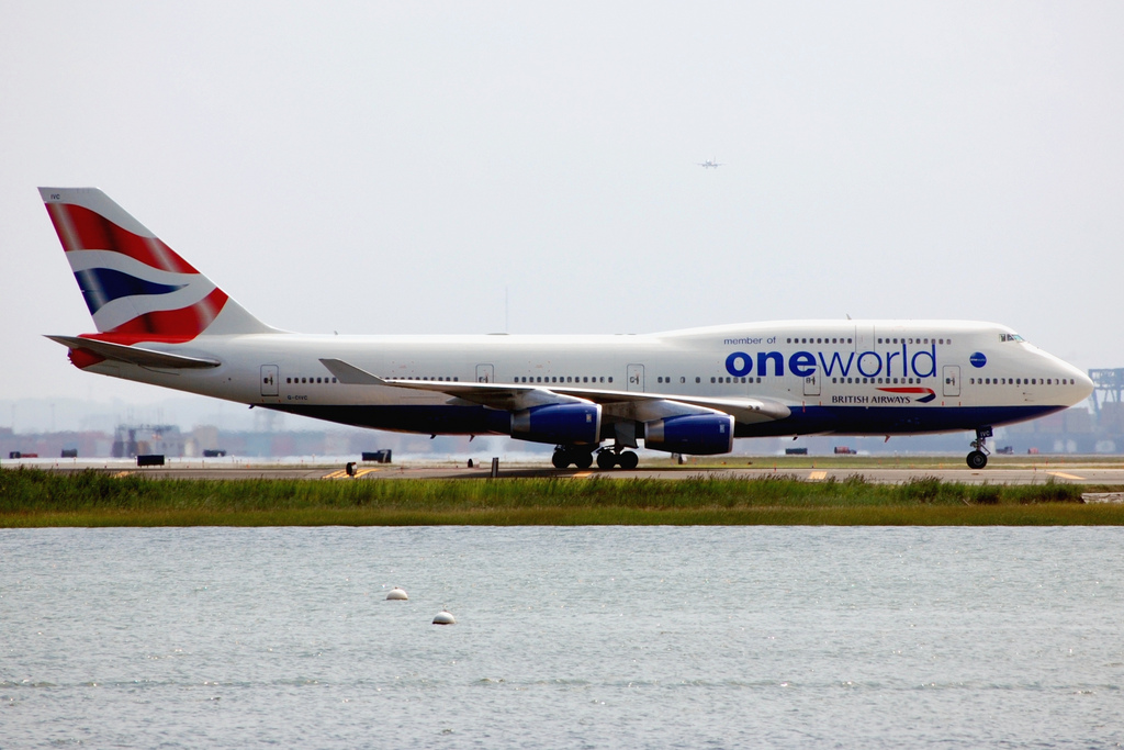 Not a bad catch here in BOS. Taxiing to gate.